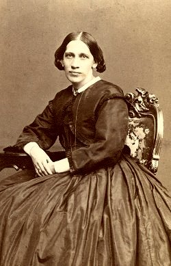 This is a publicity photo of Lina Sandell aka Karolina Wilhelmina Sandell-Berg